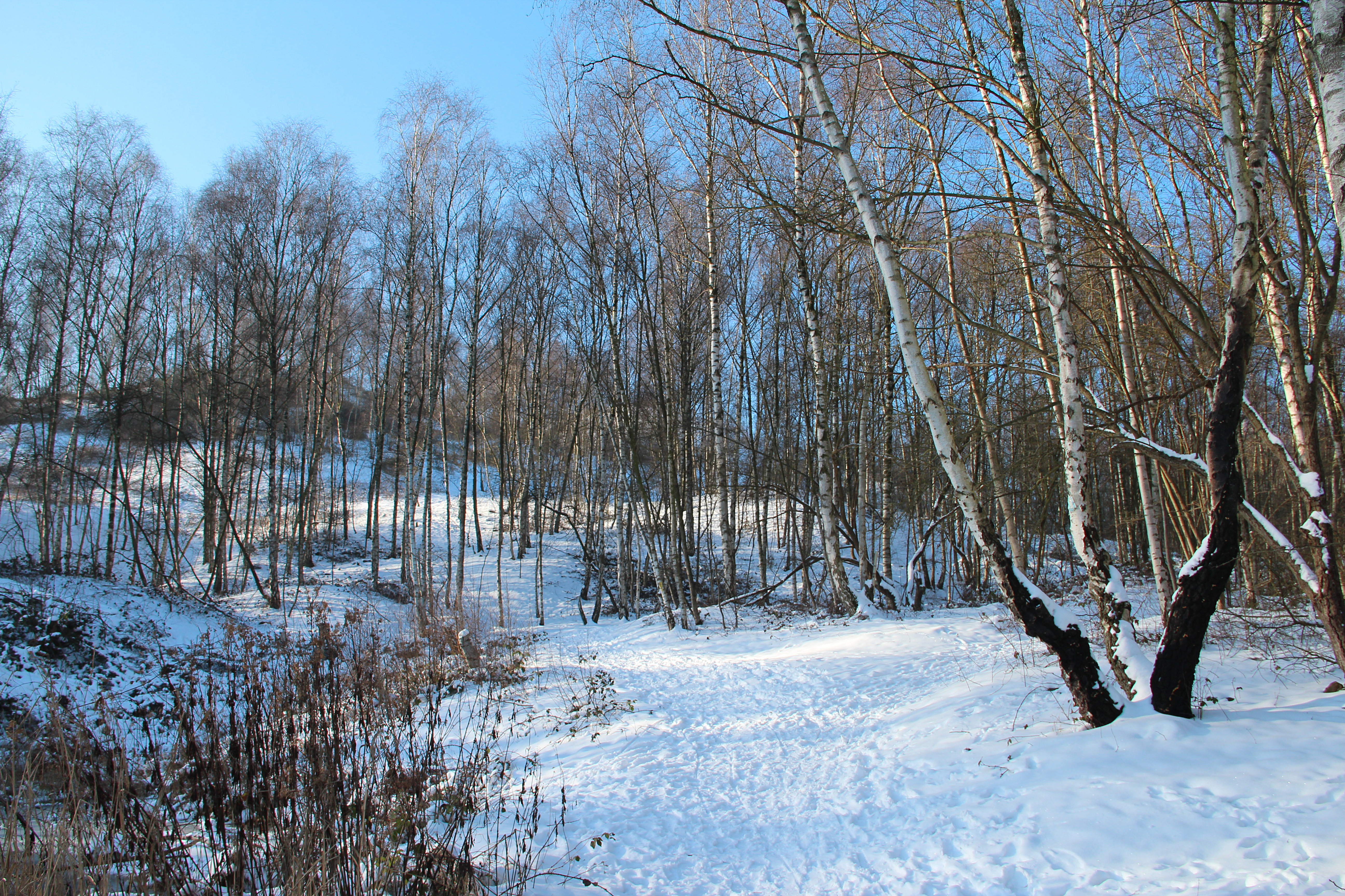 Cuesmes (Belgium), birch wood of the Héribus Mount.